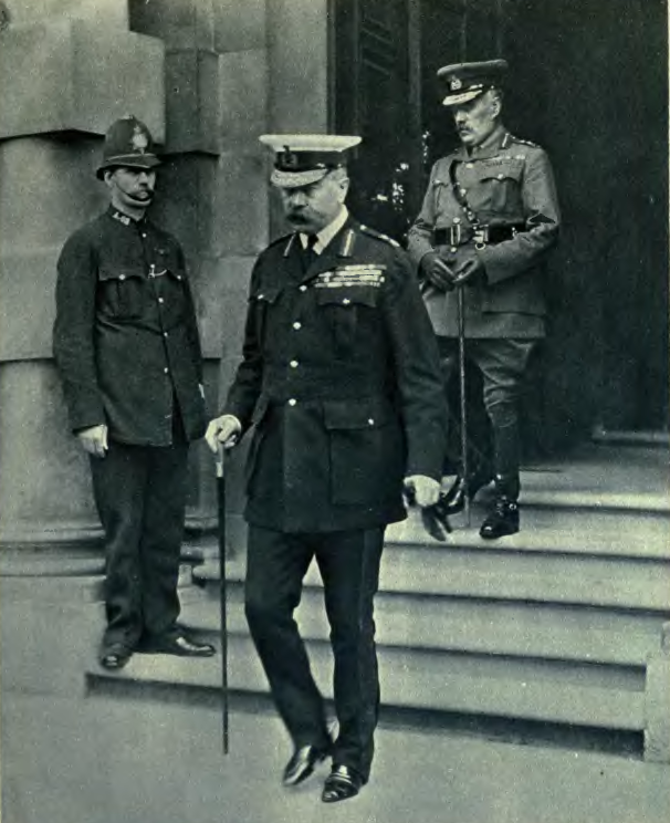 Last picture of Lord Kitchener, leaving Westminster from a meeting with MP's.